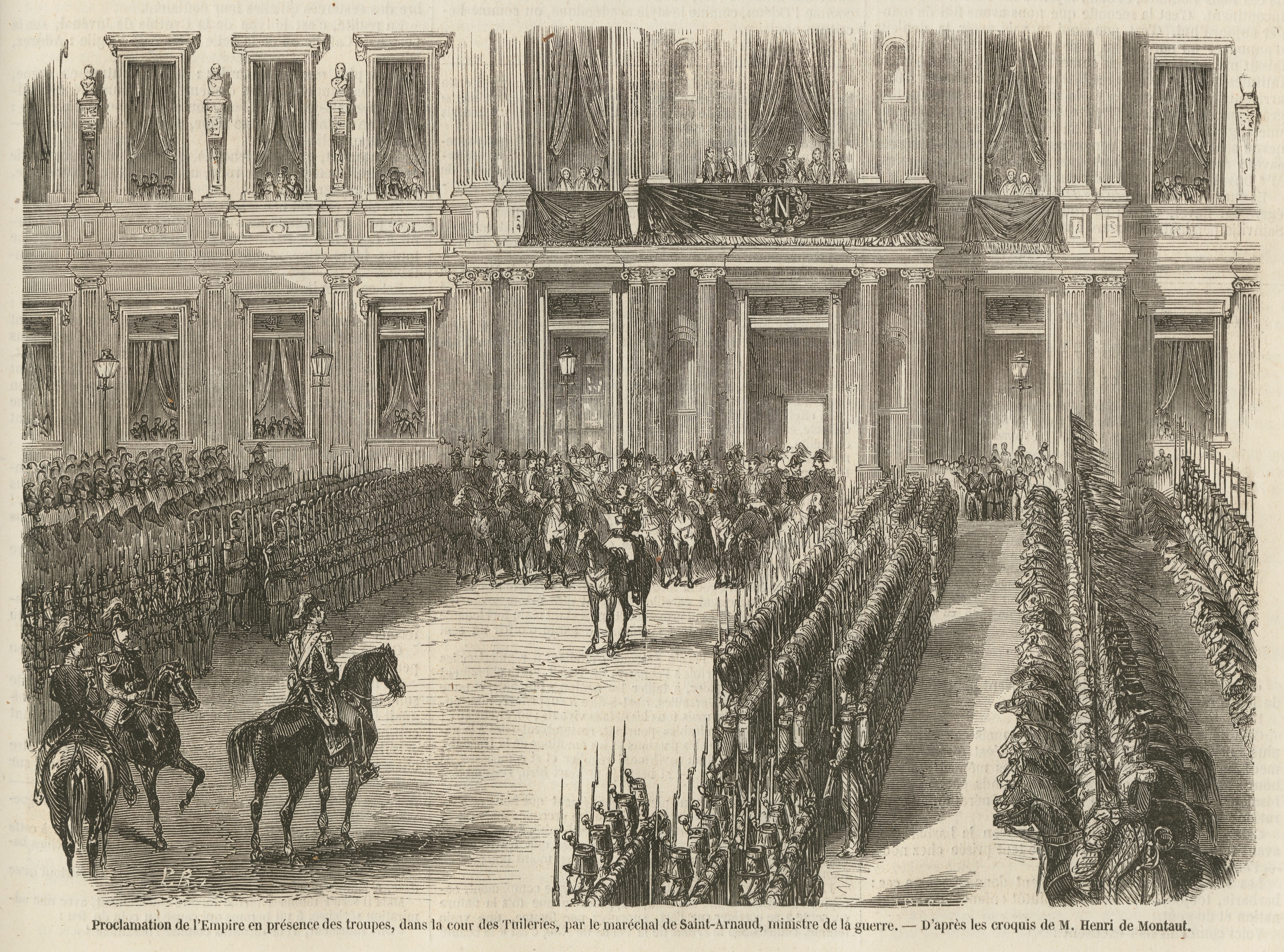 The official declaration of the Second Empire, at the Hôtel de ville, on December 2, 1852. The Second Empire was established following Napoléon III's coup d'état of the previous year.